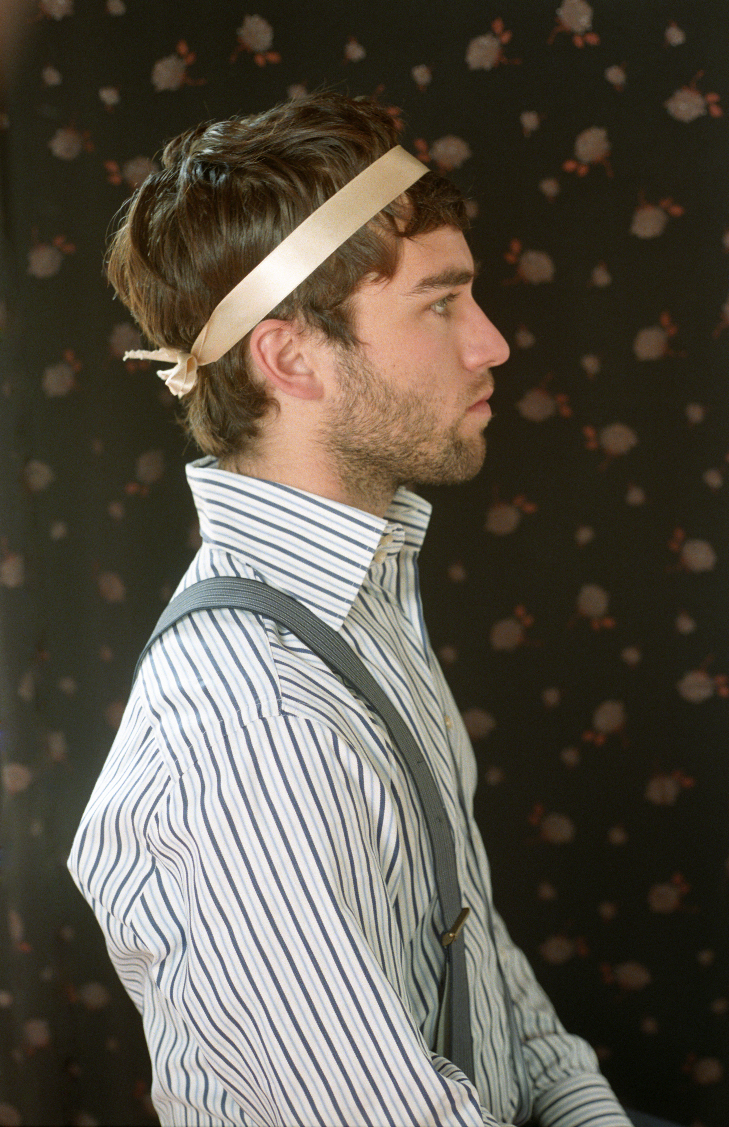 Chris Garneau by Raphaël Neal Press photo for European release of Music for Tourists on Fargo Records Shot in Paris, France